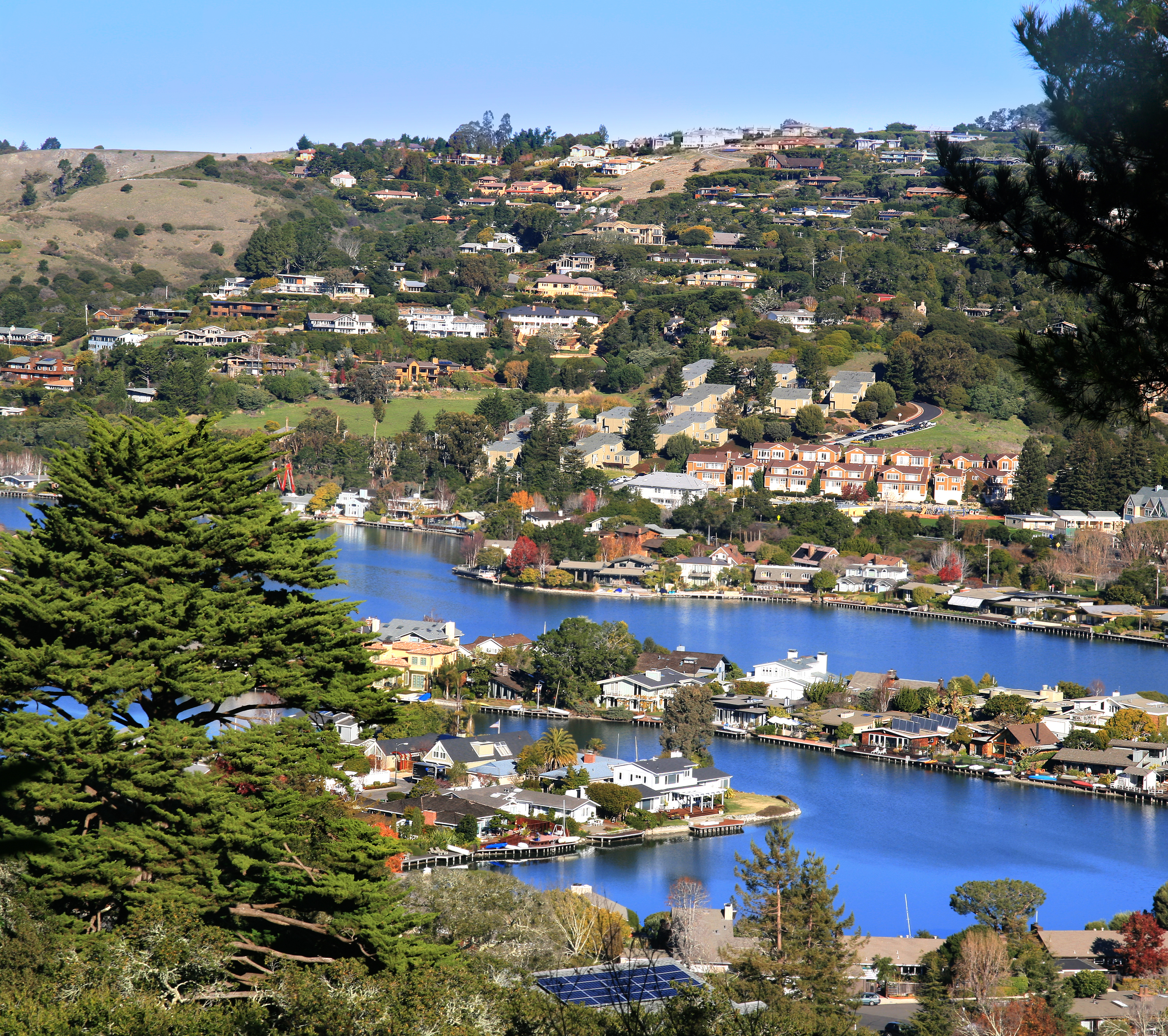 Belvedere Island in Marin County California from Tiburon.